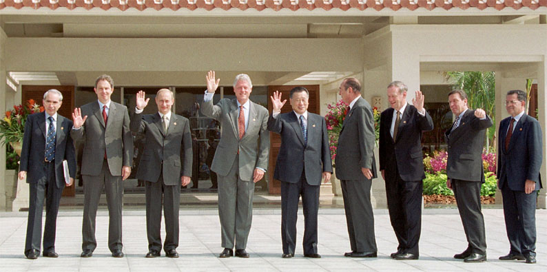 OKINAWA, JAPAN. G8 leaders before a morning meeting -- Standing, from left to right, are: Guiliano Amato (EU), Tony Blair (UK), Vladimir Putin (Russia), Bill Clinton (US), Yoshiro Mori (Japan), Jacques Chirac (France), and Jean Chrétien (Canada).